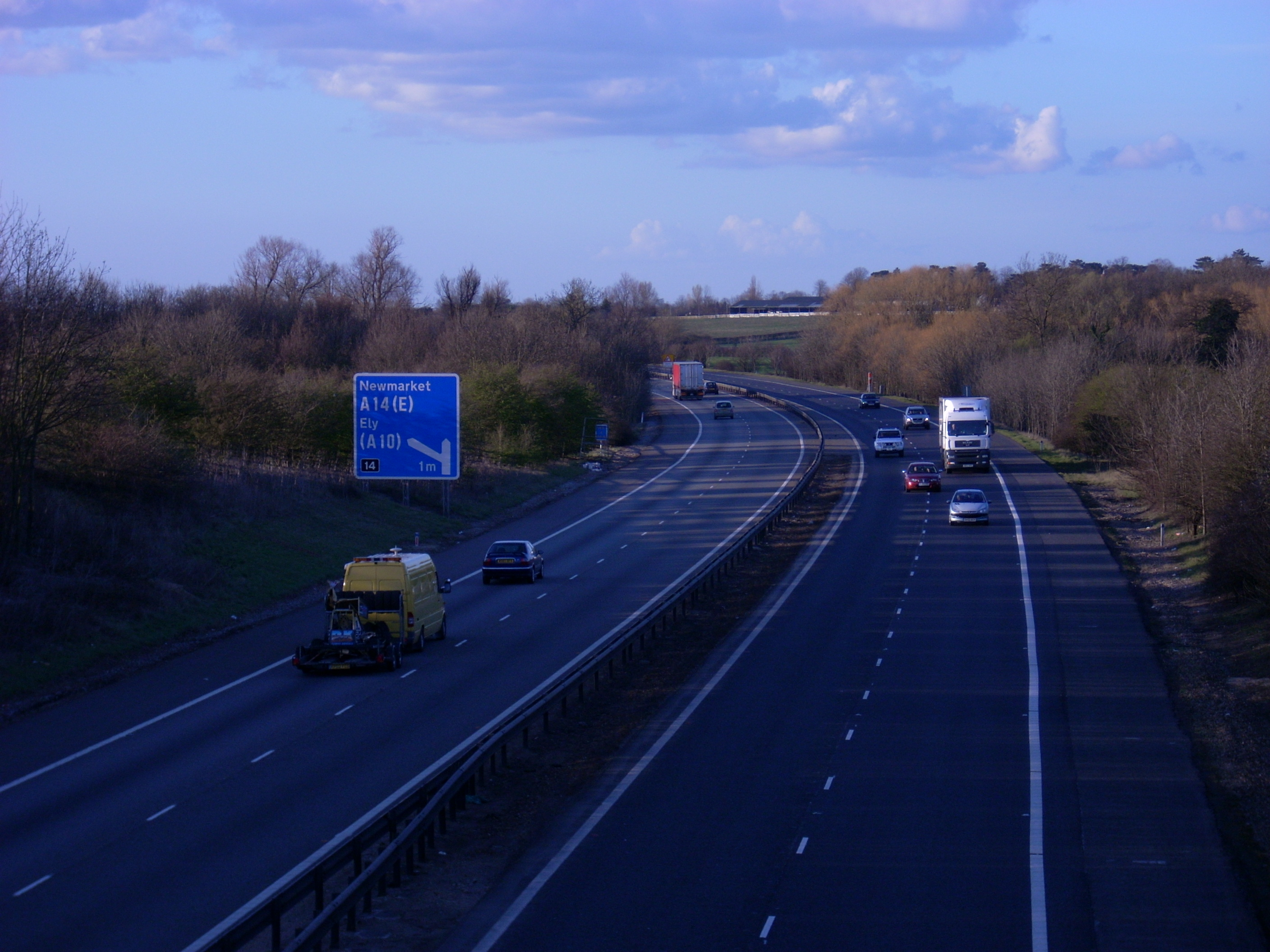 M11 motorway north of Cambridge approaching J14 northbounds